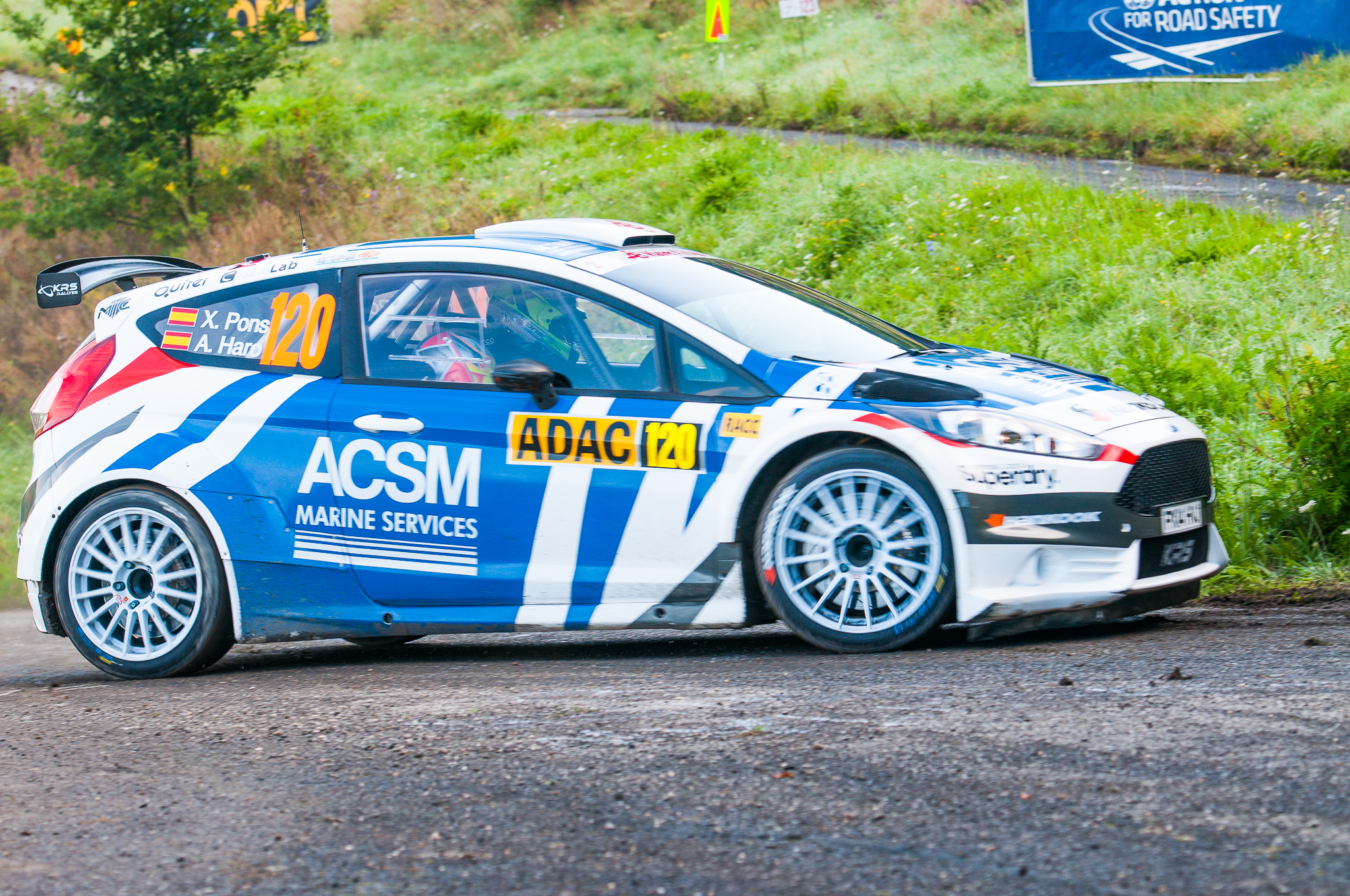 ACSM Rallye Team,ADAC Rallye Deutschland 2014,Alex Haro,Dhrontal,FIA,FIA World Rally Championship,Ford Fiesta R5,Motorsport,Rally,Rallye,SS15,WP15,WRC,Xavier Pons